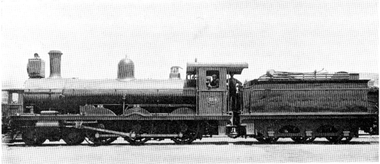 Ex Cape Government Railways Class 6 no. 357Ex Oranje-Vrijstaat Gouwermentspoorwegen Class 6 no. 62Ex Central South African Railways Class 6-L1 no. 338South African Railways Class 6 no. 433Builder's works number: Dübs 3058